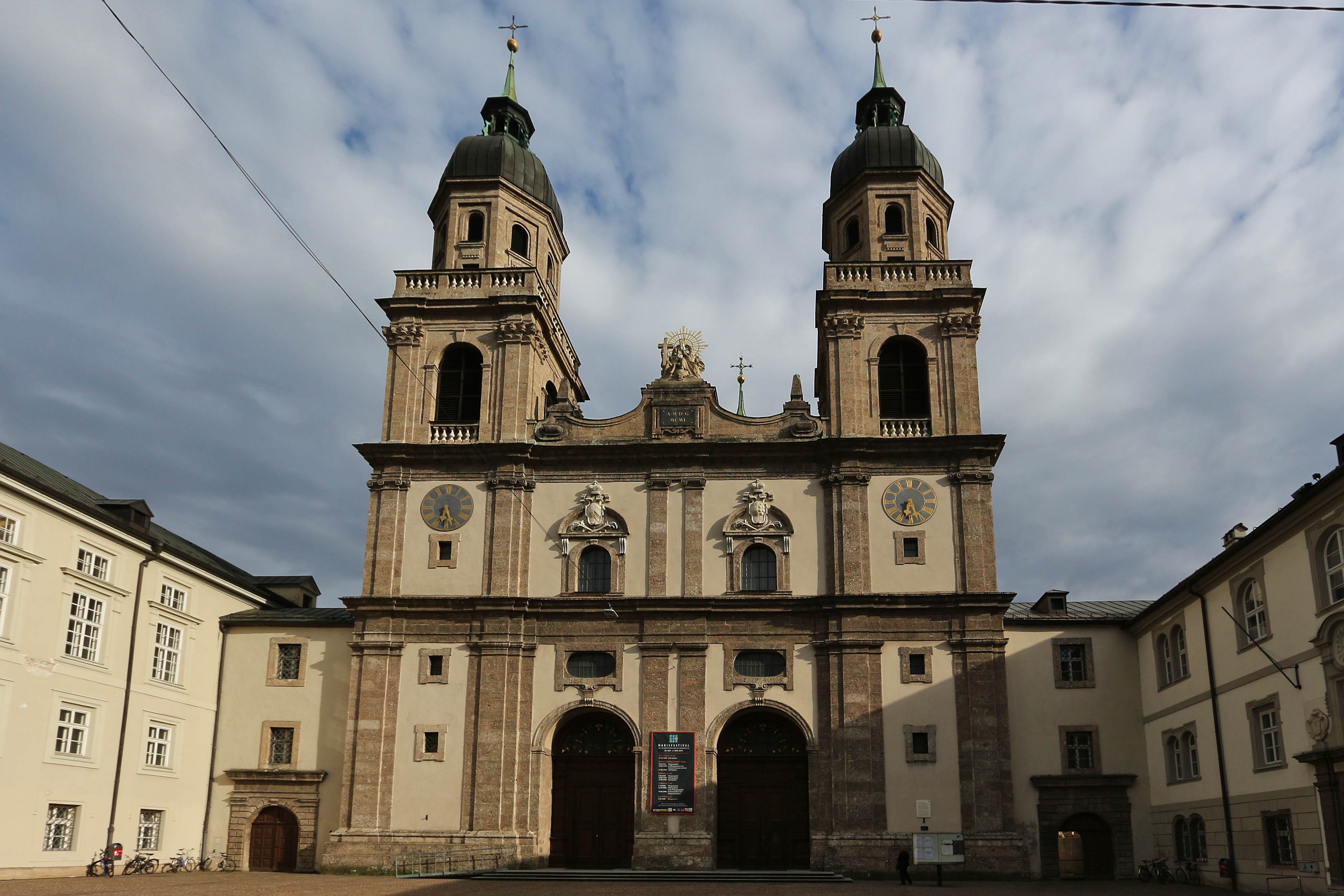 Jesuitenkirche Innsbruck